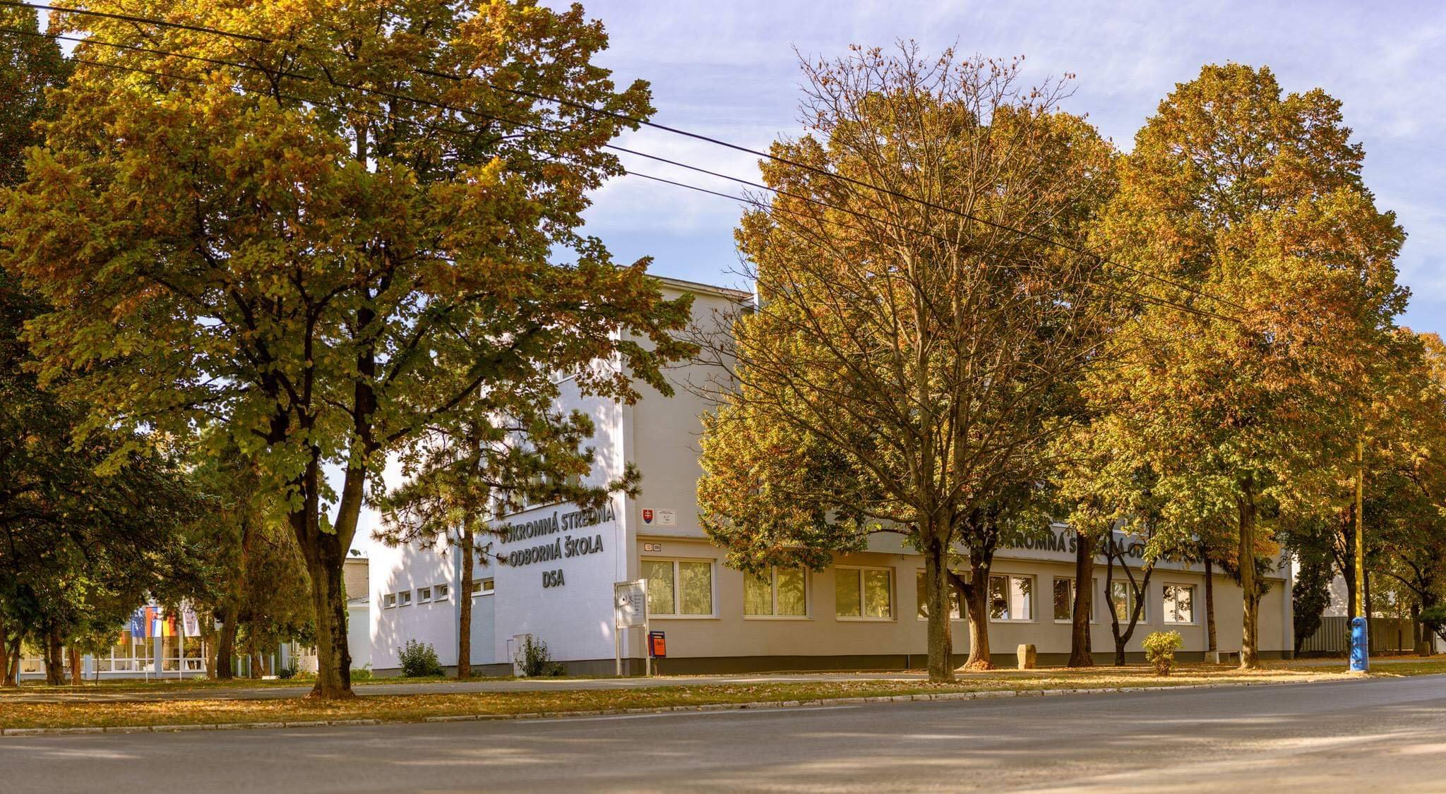 SSOS Trebisov DSA